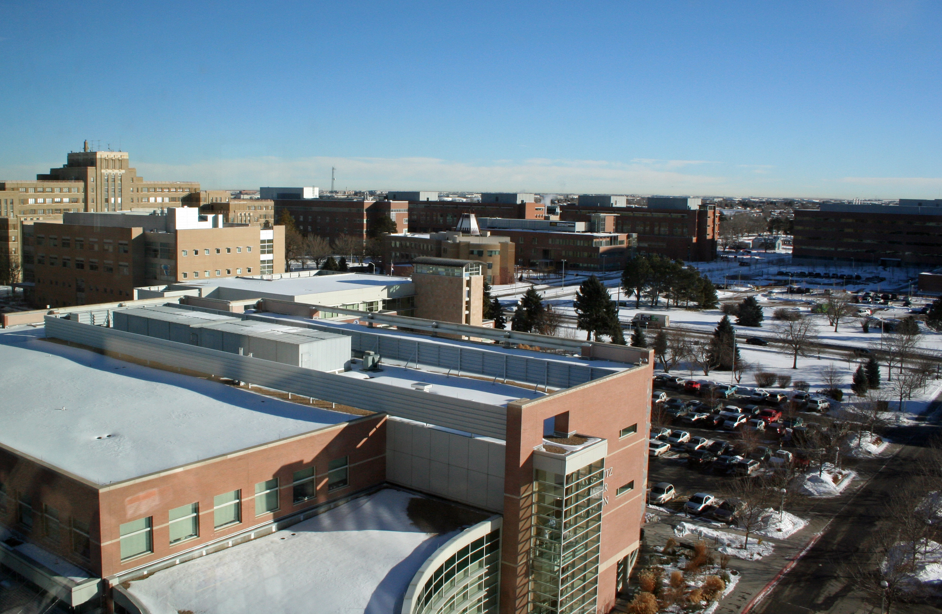 The Anschutz Medical Campus in Aurora, Colorado